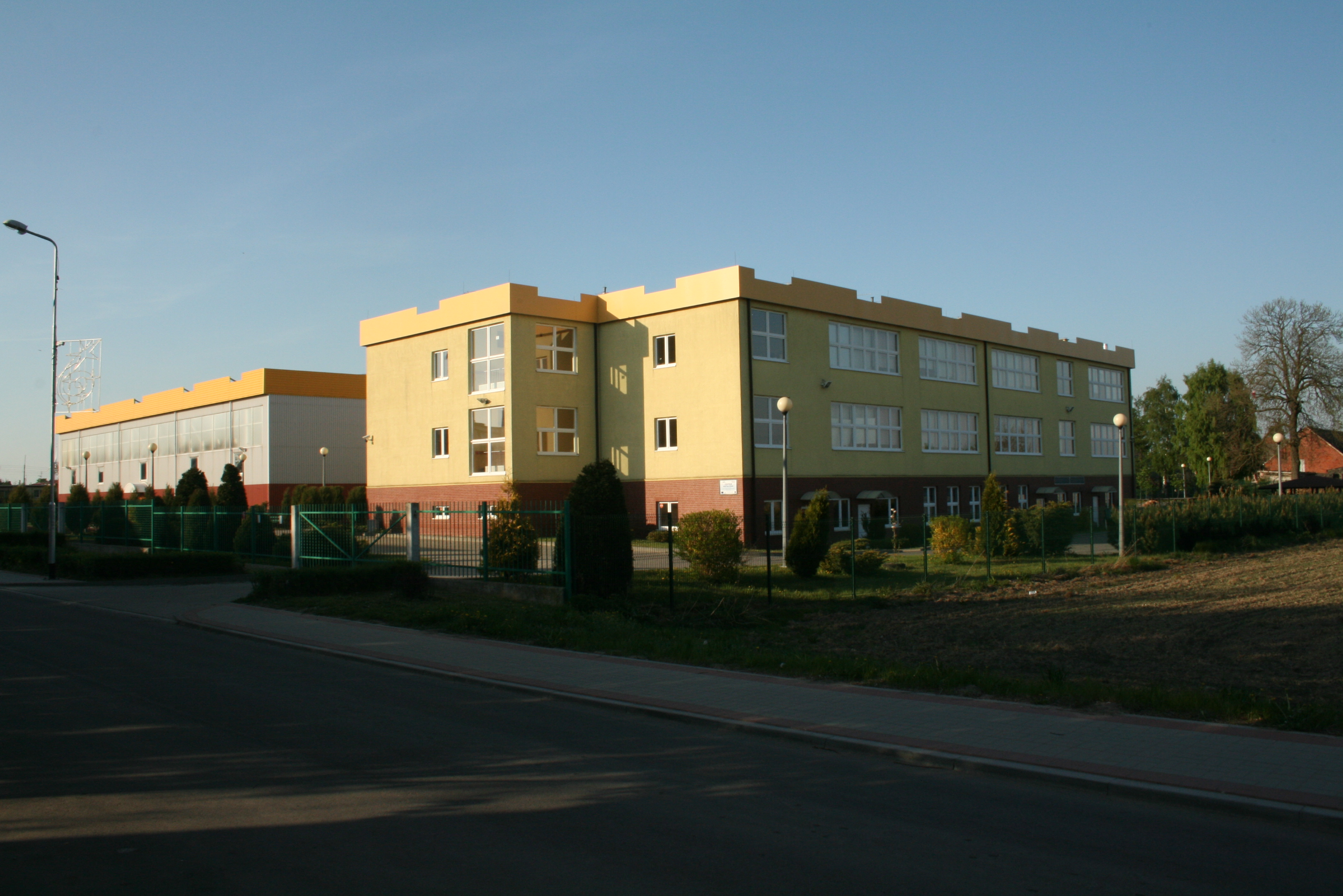 Middleschool in Goscino.